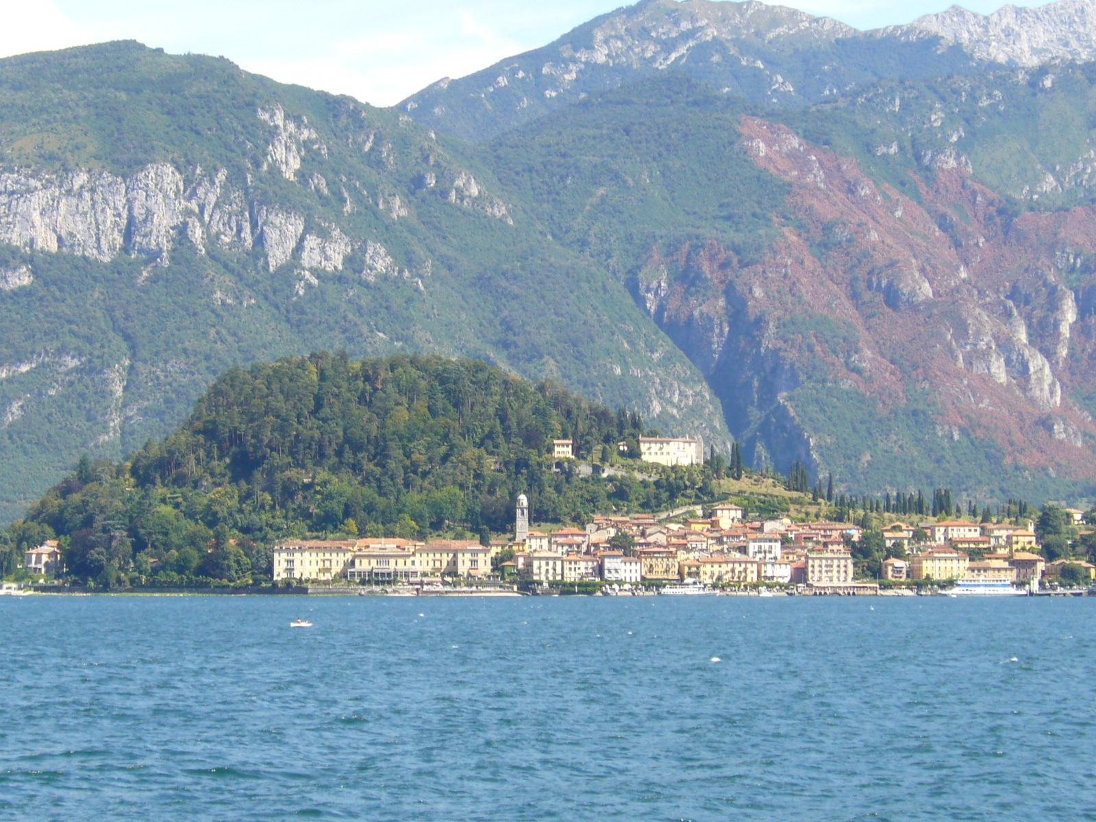 Bellagio, lake of como, Italy. Picture taken by Susanne Acht. August, 13, 2006.